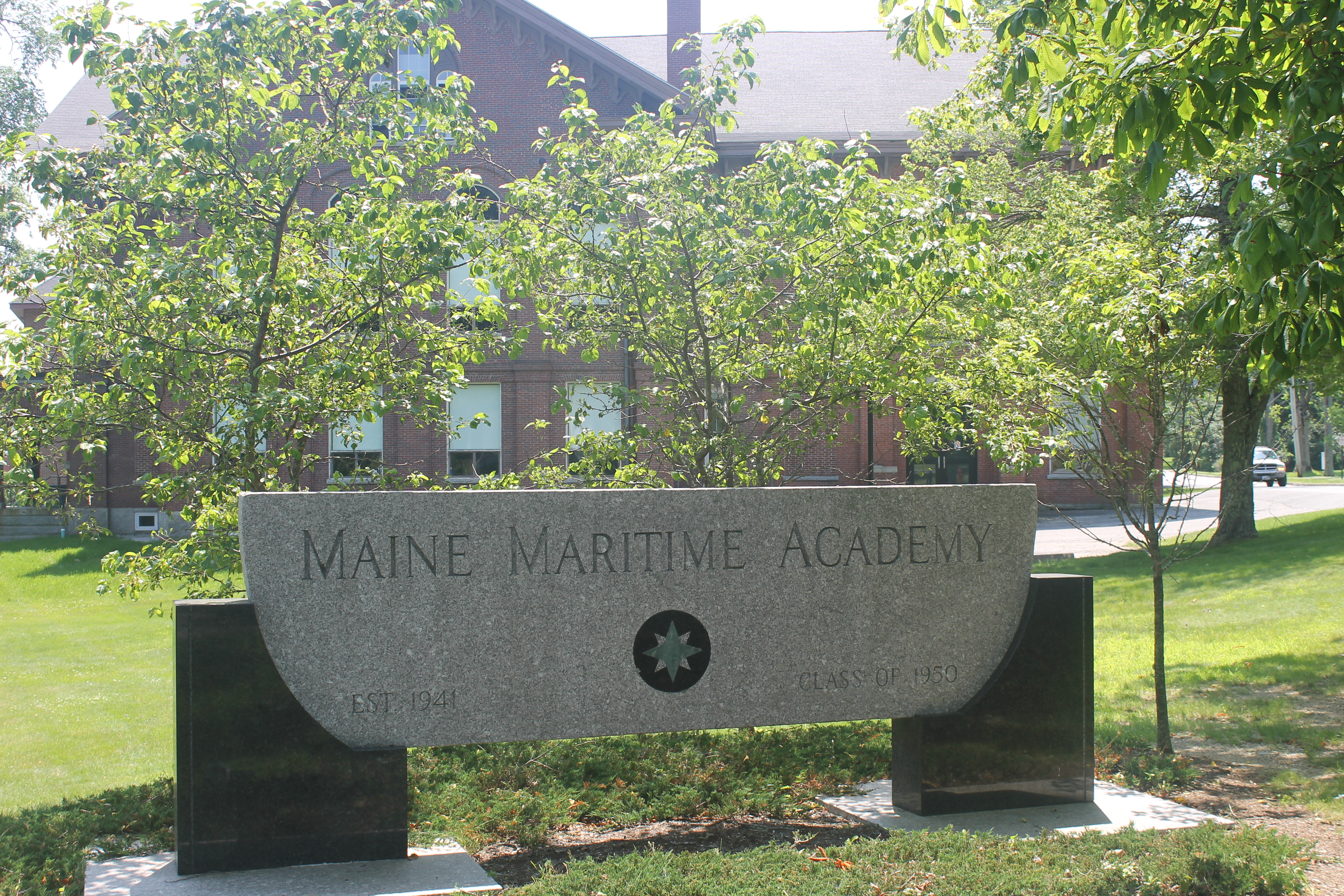 I took photo of sign at Maine Maritime Academy in Castine, ME, with Canon camera.